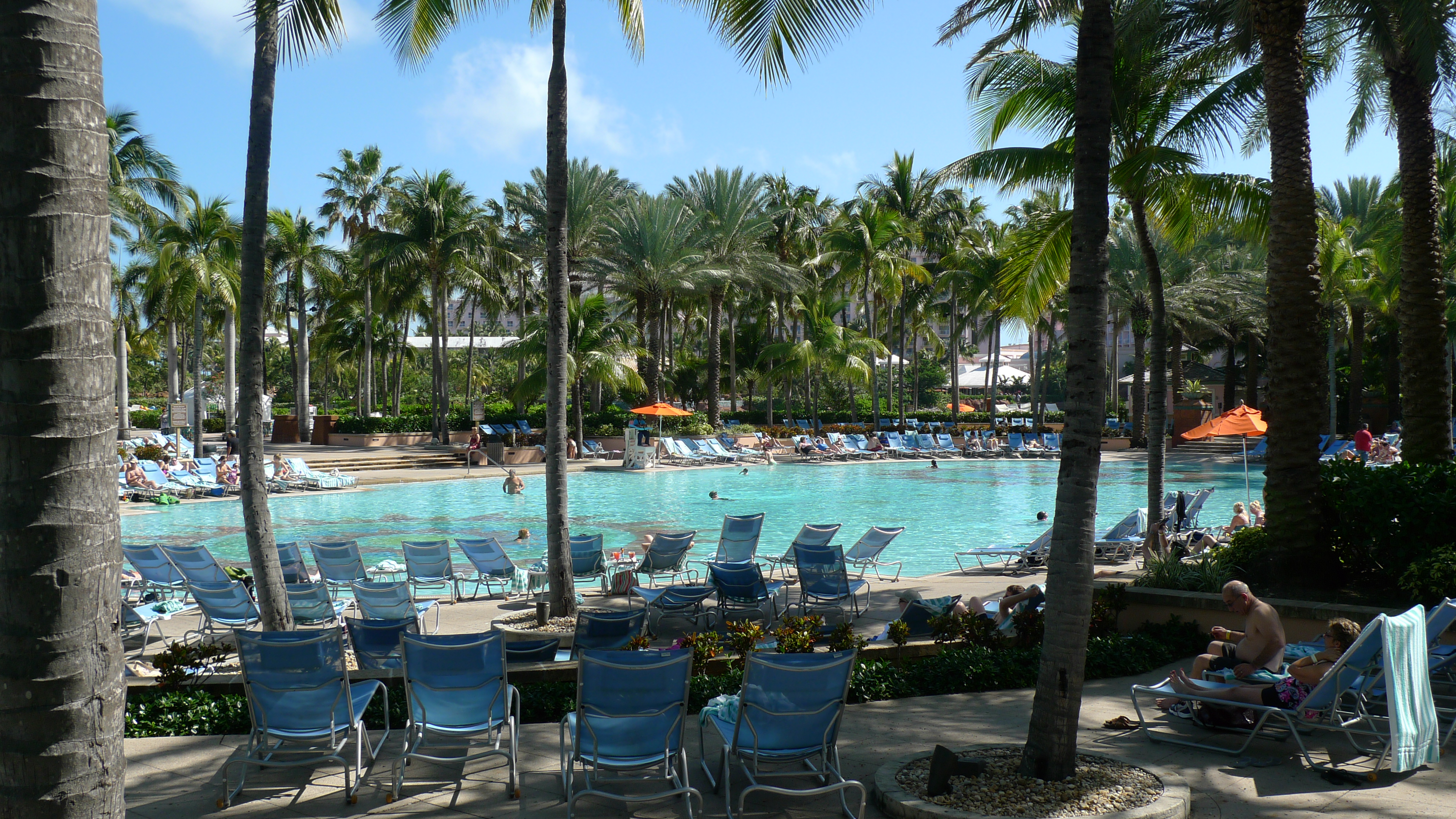 Atlantis Paradise Island pool photo D Ramey Logan